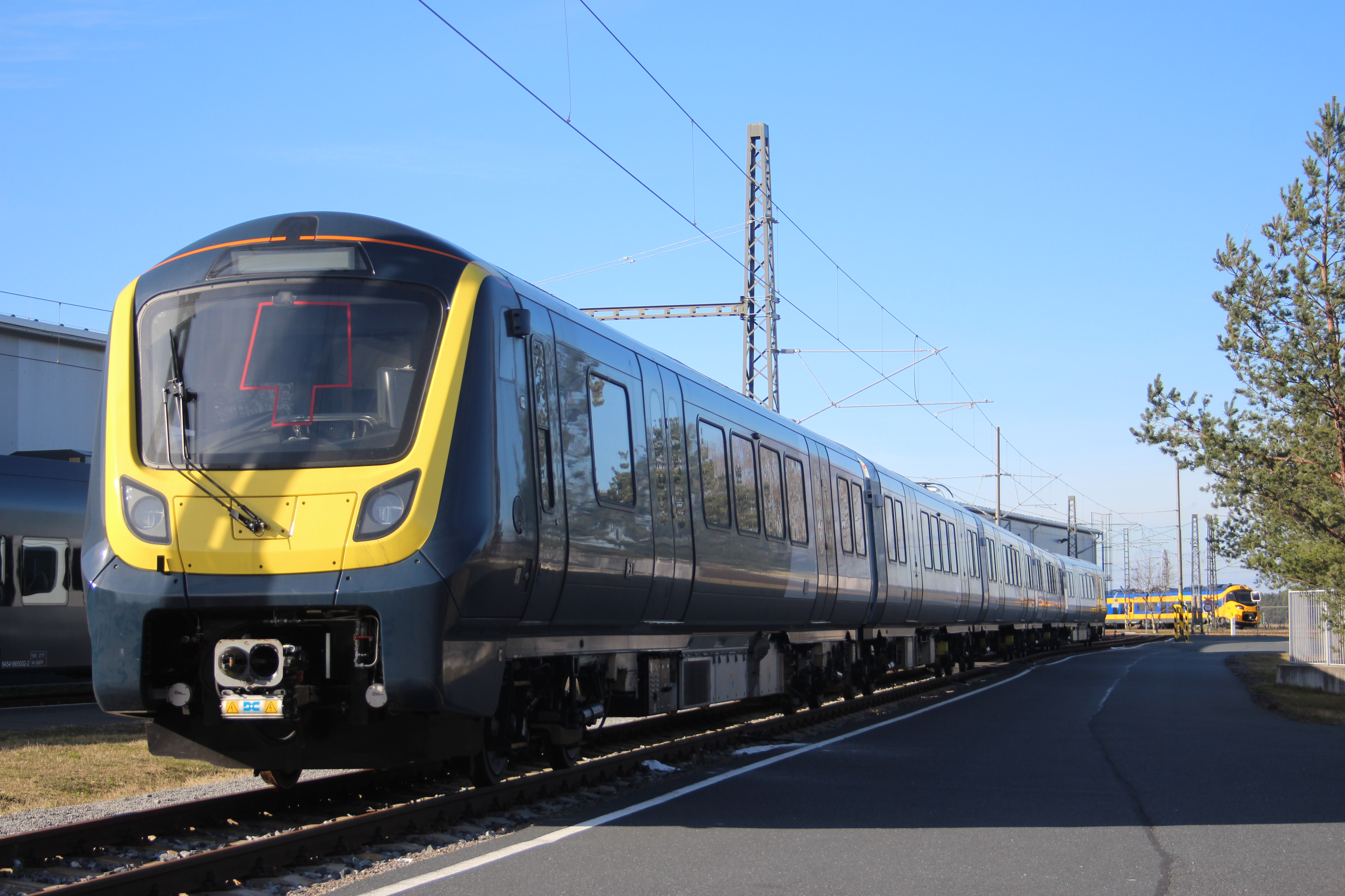 An unidentifable Class 701/5 electric multiple unit for South Western Railway at Velim Railway Test Circuit.